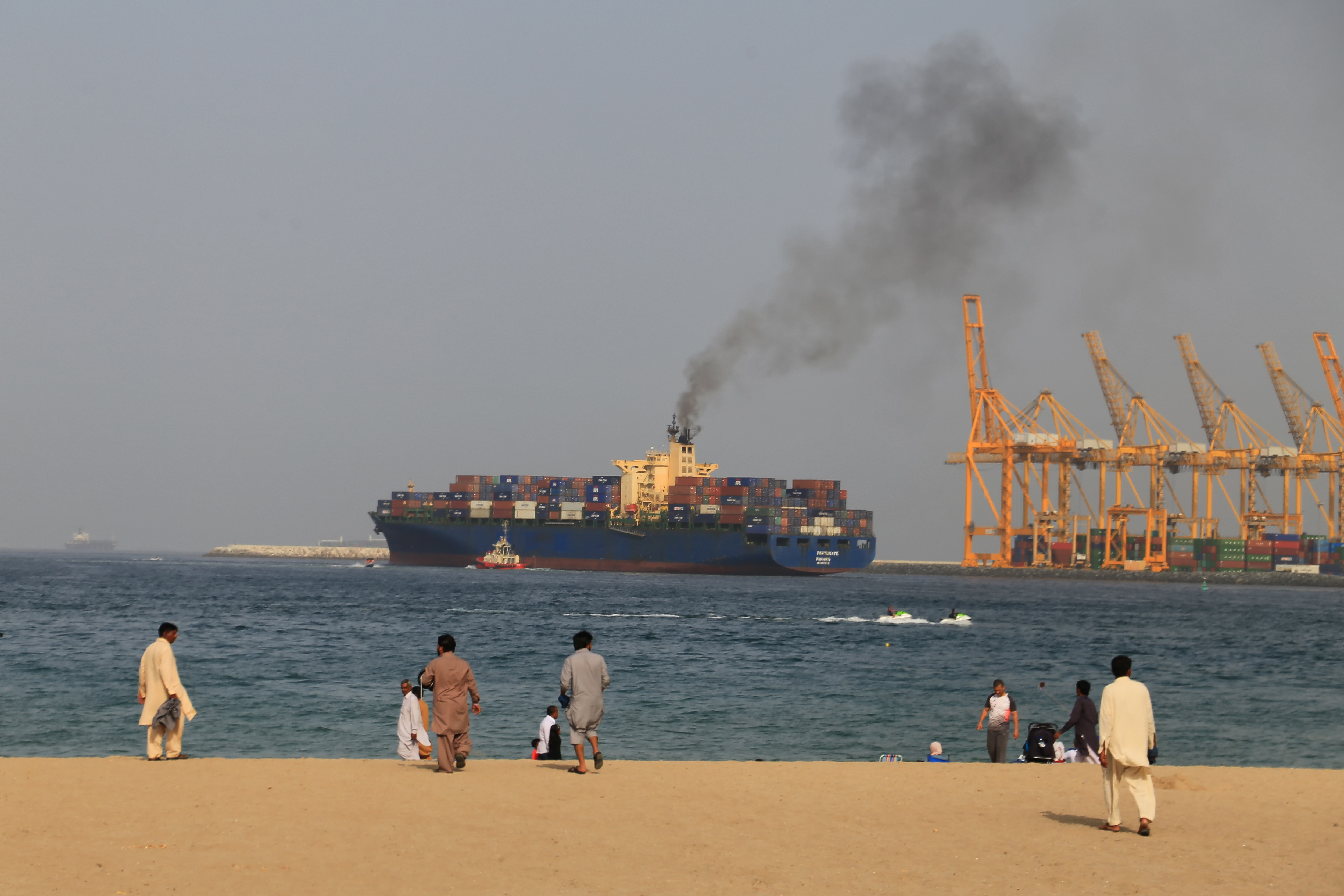 Khorfakkan is one of the world's leading container transshipment ports